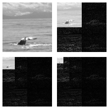 Wavelet transformations in level-1, level-2 and level-3. Also it has de original image. Made for the wikipedia article JPEG2000